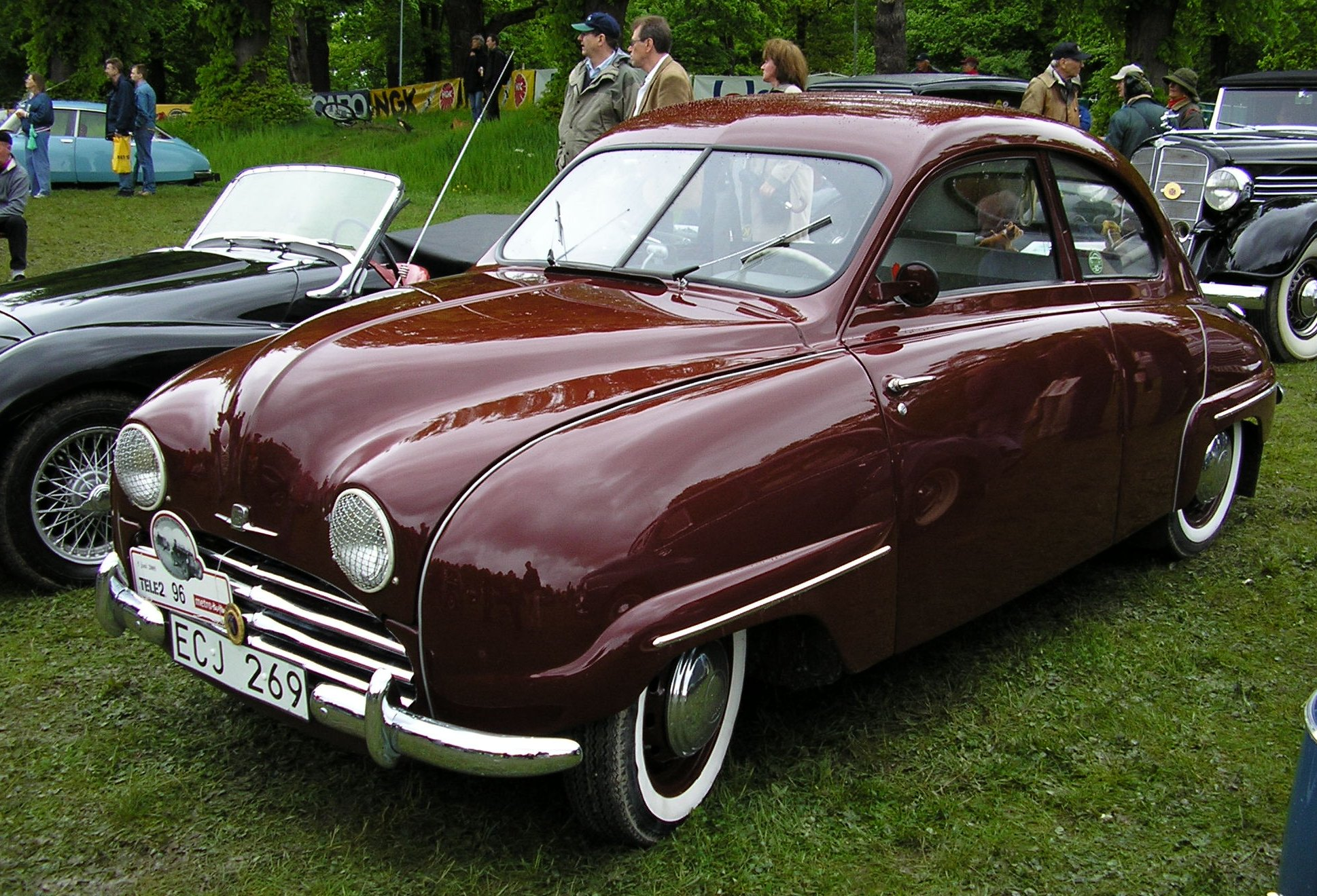 A 1955 Saab 92B at Prins Bertil Memorial in Stockholm, Sweden 2005.